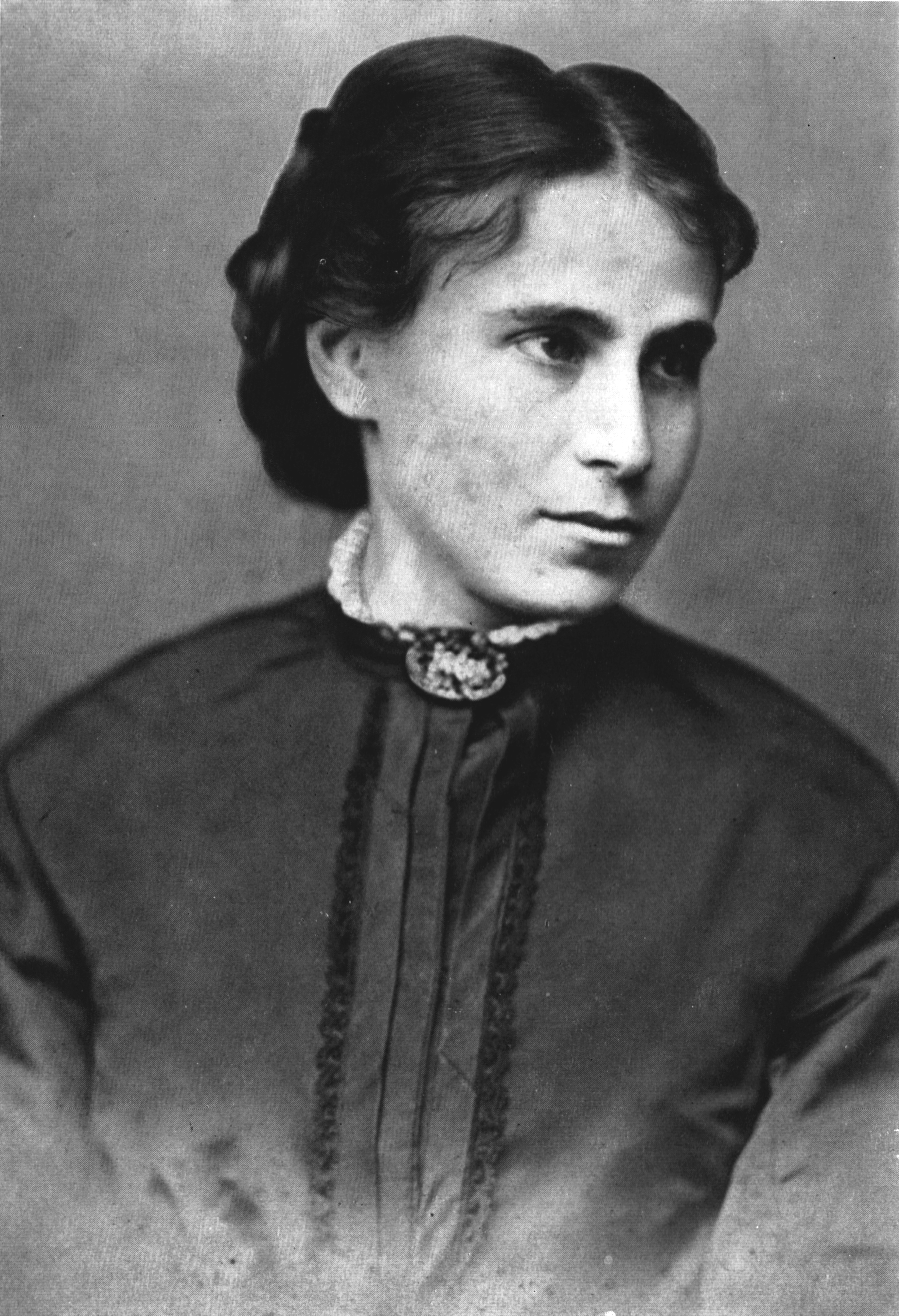 Tina Blau (Detail of a photo made 1869 at Christmas in Munich)